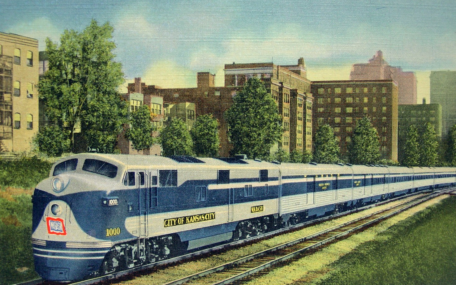 Postcard depiction of the Wabash train City of Kansas City.